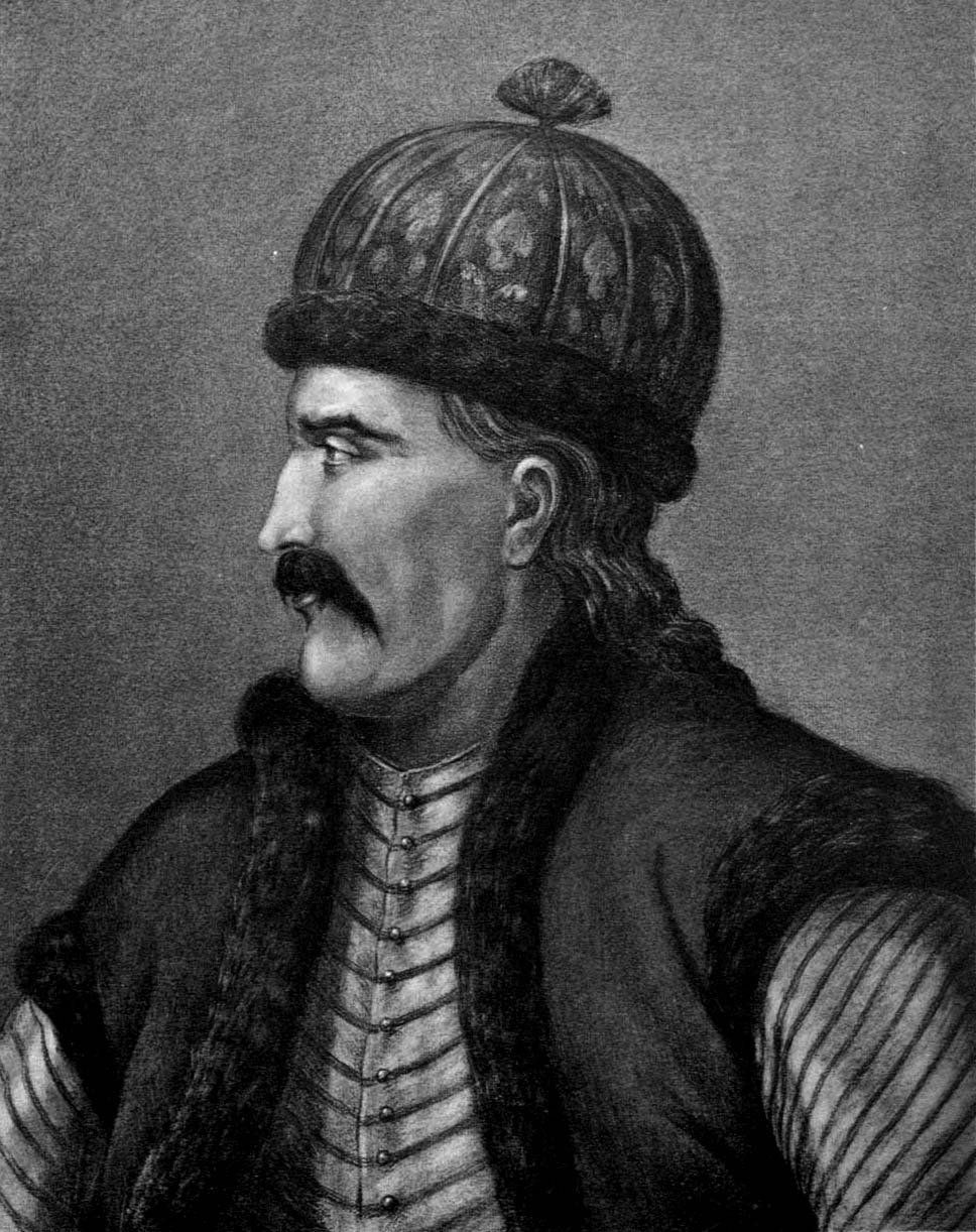 Milenko Stojković, Serbian Revolutionary